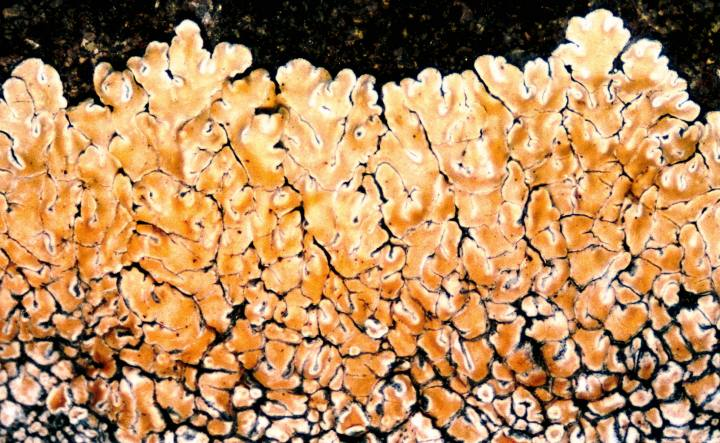 Lecanora muralis (Schreb.) Rabenh., 1845 (photograph of a herbarium specimen taken through a dissecting microscope (x6) showing lobes on the margin of the thallus) Growing on a rock outcrop along the shore of Lake Superior, W side of Route 17, 6.5 miles N of Pancake Bay Provincial Park, Ontario, Canada; collected and identified by Richard E. Riefner (No. 81-526, 21 Jul 1981); specimen is now in the Lichen Herbarium of the New York Botanical Garden.